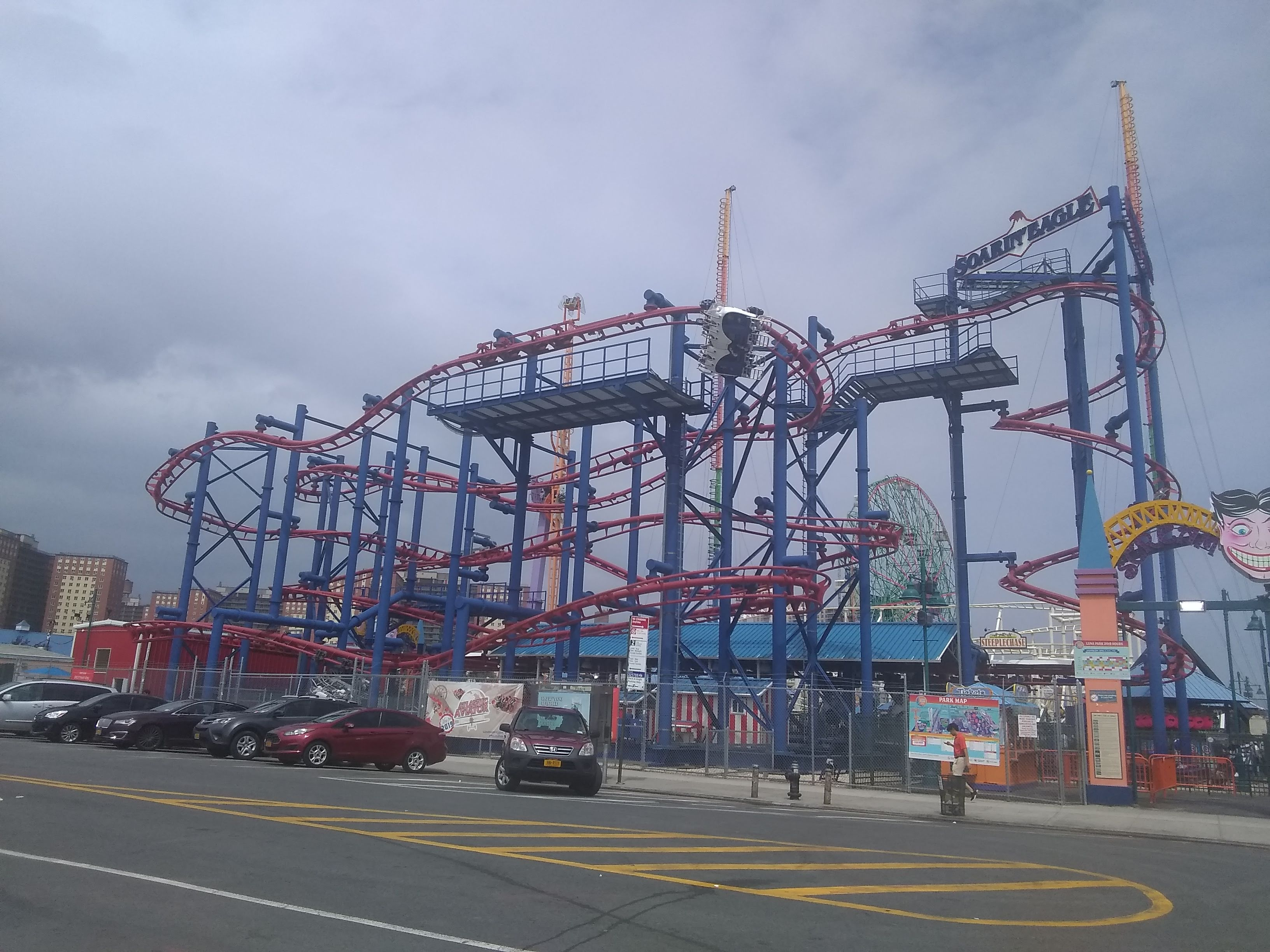 Coney Island in Brooklyn, New York, seen in July 2019. Soarin' Eagle looking east